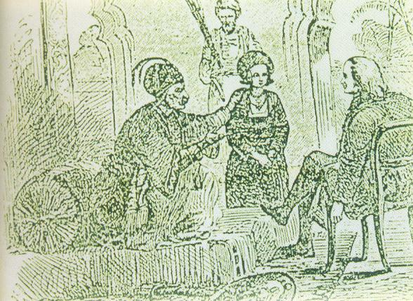 Engraving of Tuljaji, little Serfoji II and missionary Schwatz